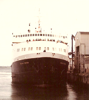 Canadian National Railway ferry William Carson in service between Port aux Basques and North Sydney, Nova Scotia.